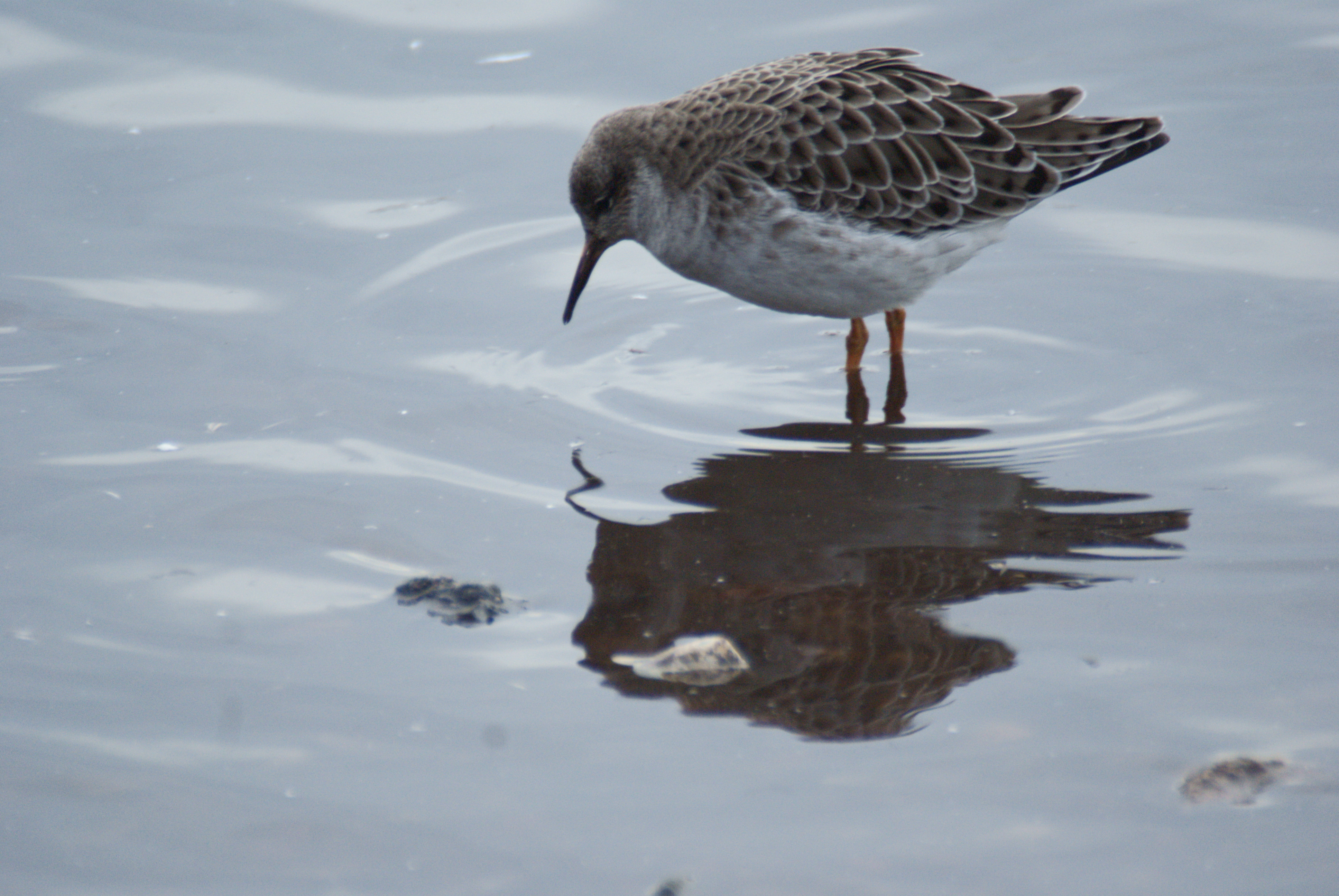 A Ruff Philomachus pugnax at Martin Mere, Lancashire, England.